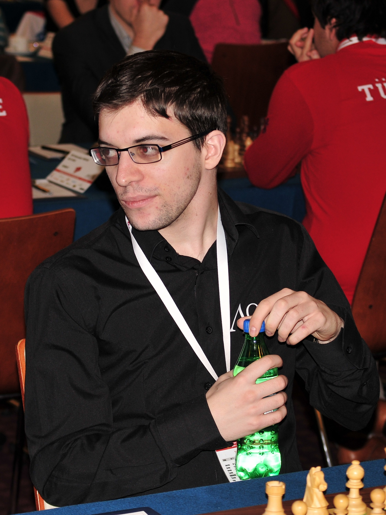 GM Maxime Vachier-Lagrave, European Chess Team Championship Warsaw 2013